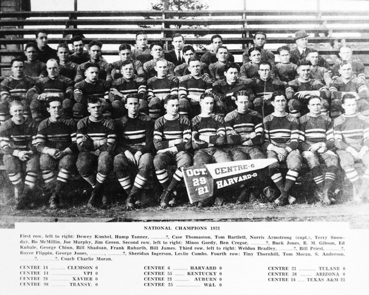 1921 Centre College football team who defeated Harvard 6-0. Source: Centre College Photos